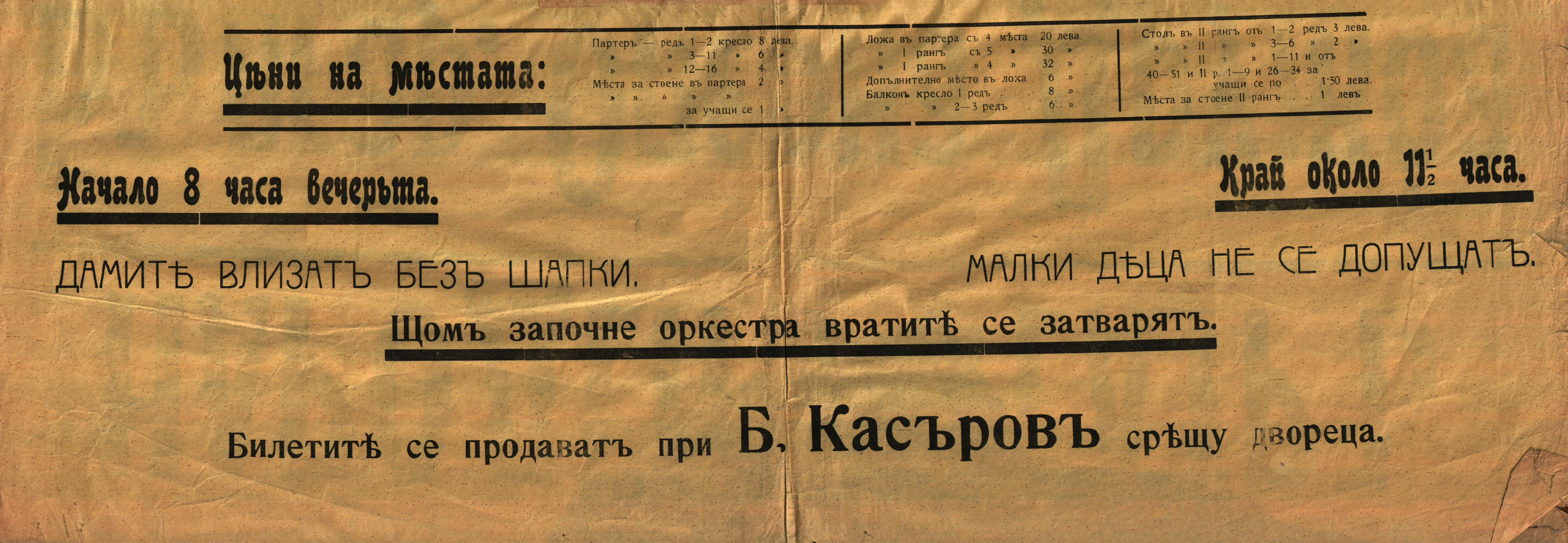 Bulgarian opera „Borislav“